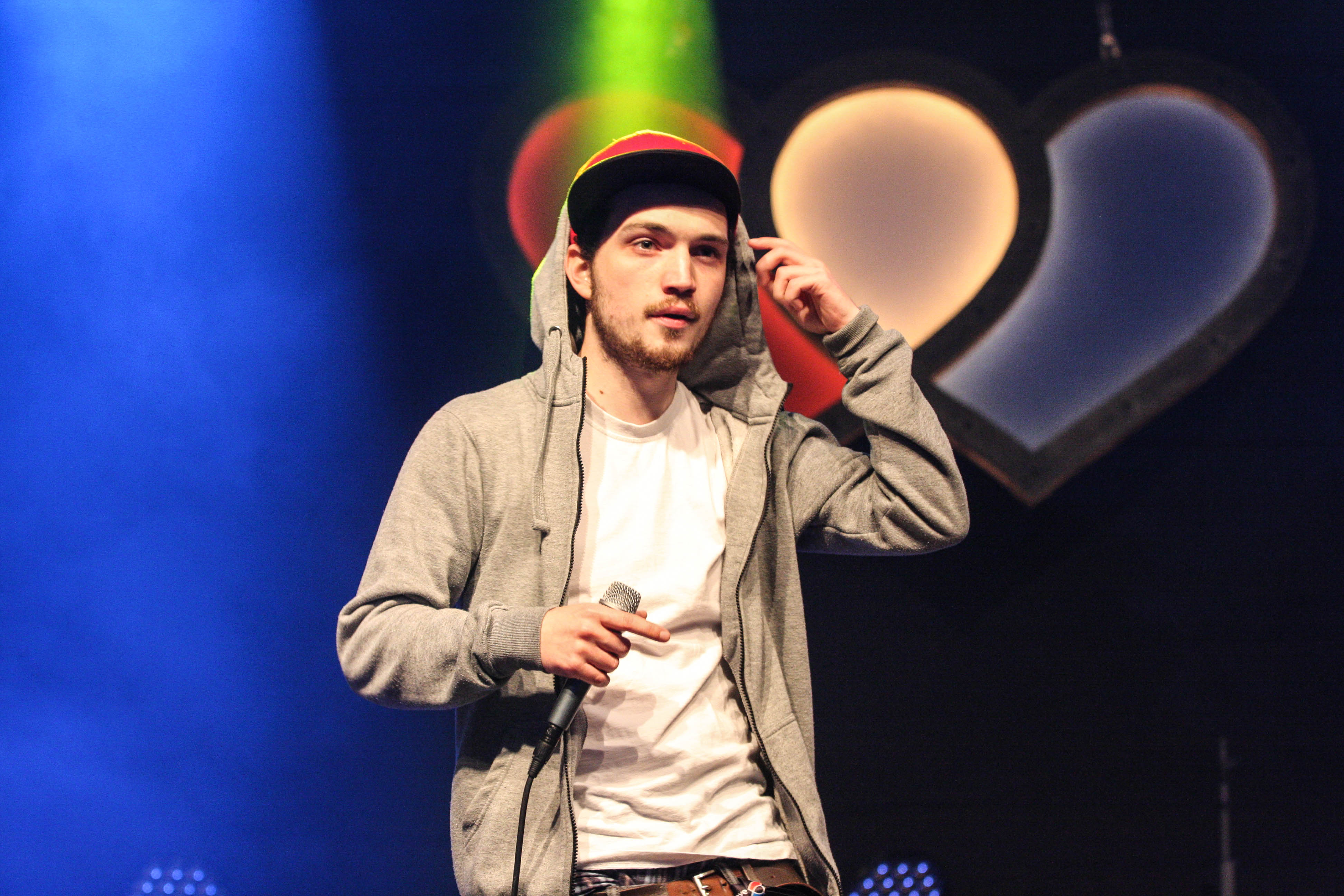 Festivalsommer This photo was created with the support of donations to Wikimedia Deutschland in the context of the CPB project "Festival Summer".